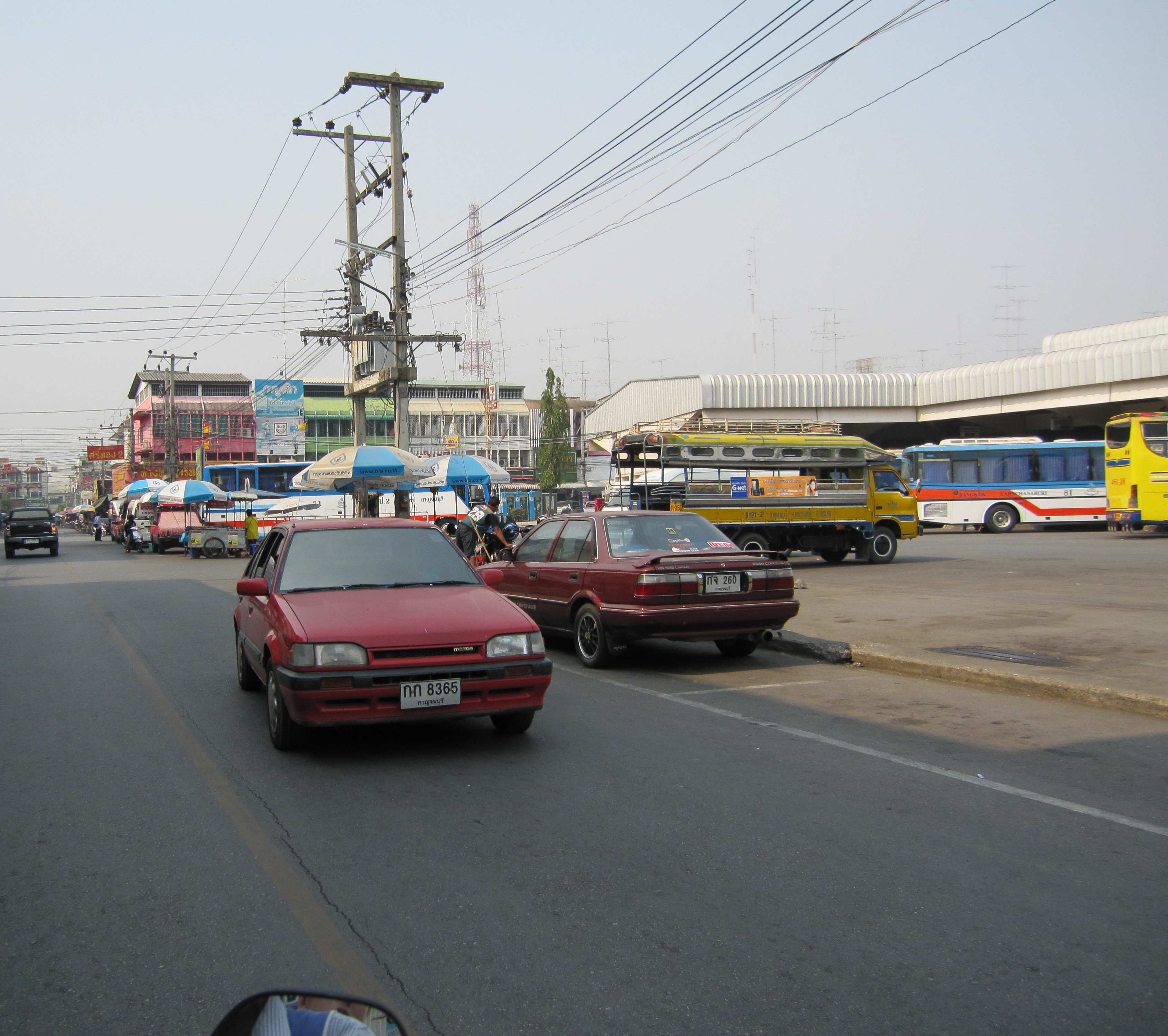 Kanchanaburi Bus Terminal